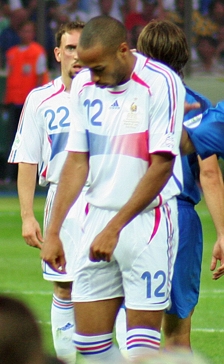 Italy vs France, FIFA World Cup 2006 final, french forward Thierry Henry.